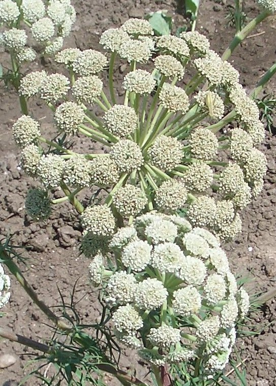 Laserpitium siler